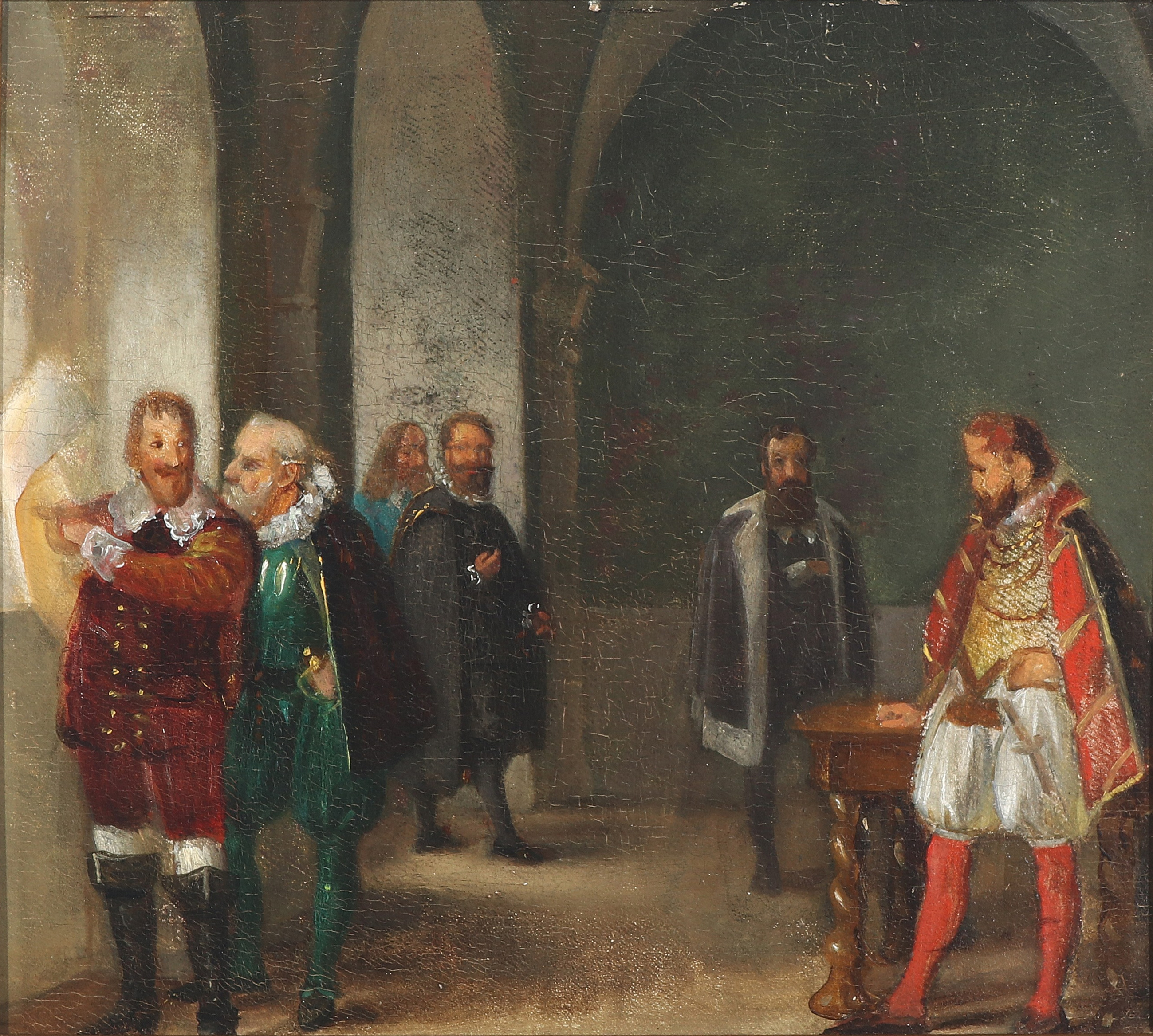 Christoffer Rosenkrantz was a fraudulous nobleman. One of his forgeries was a loan document to a widow, where he changed the amount from 1,000 to 5,000. The widow took the case to the courts, and on June 30, 1609 the Danish king Christian IV interrogated Rosenkrantz at the royal Skanderborg Castle. The painting shows Christian IV at the window to the left, examining the loan document. The smartly dressed Rosenkrantz is to the right (Lund obviously had no idea what he looked like). In the end Rosenkrantz confessed, his dwellings were searched, and more forgeries - including a royal seal - were found. Christoffer Rosenkrantz was executed in March 1610.